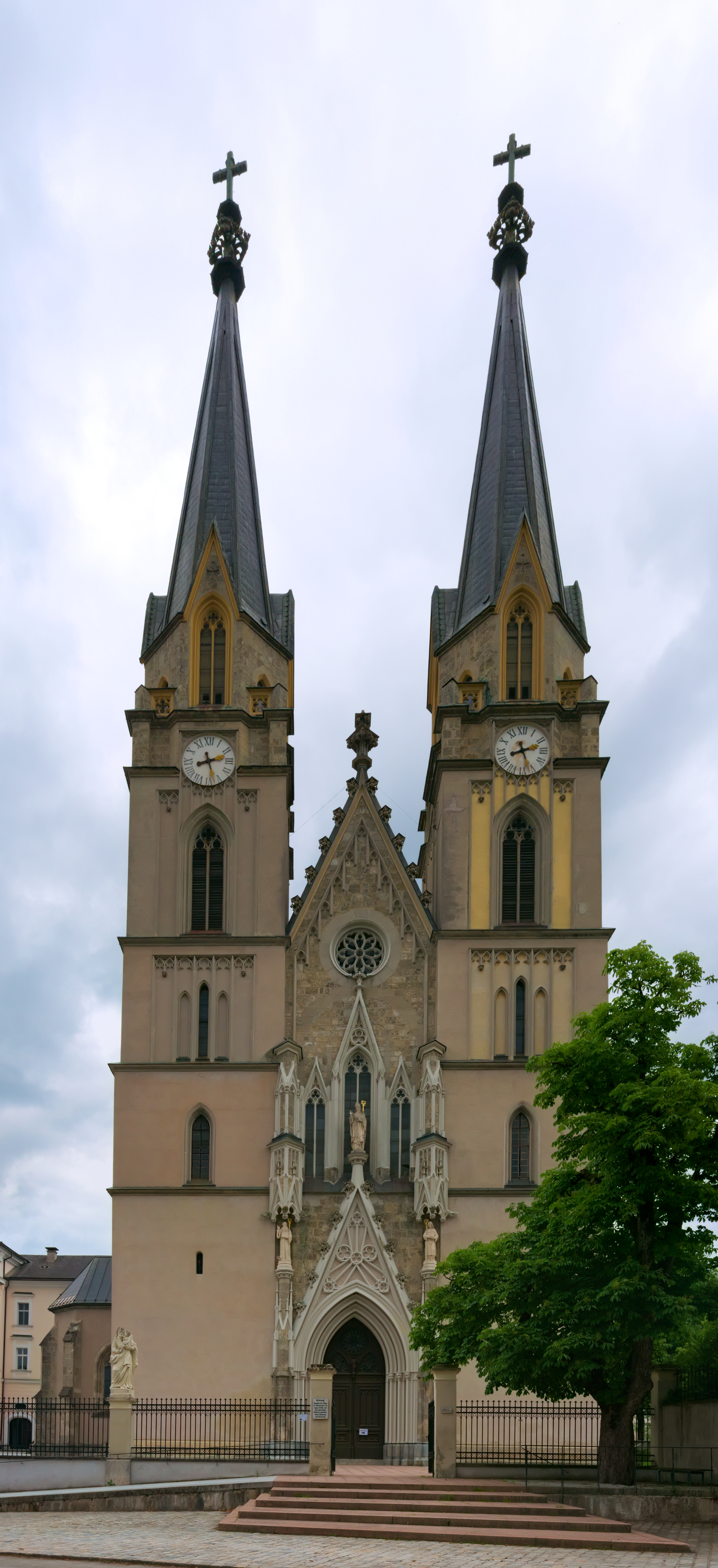 The west facade with the main entrance portal of Stiftskirche Admont.